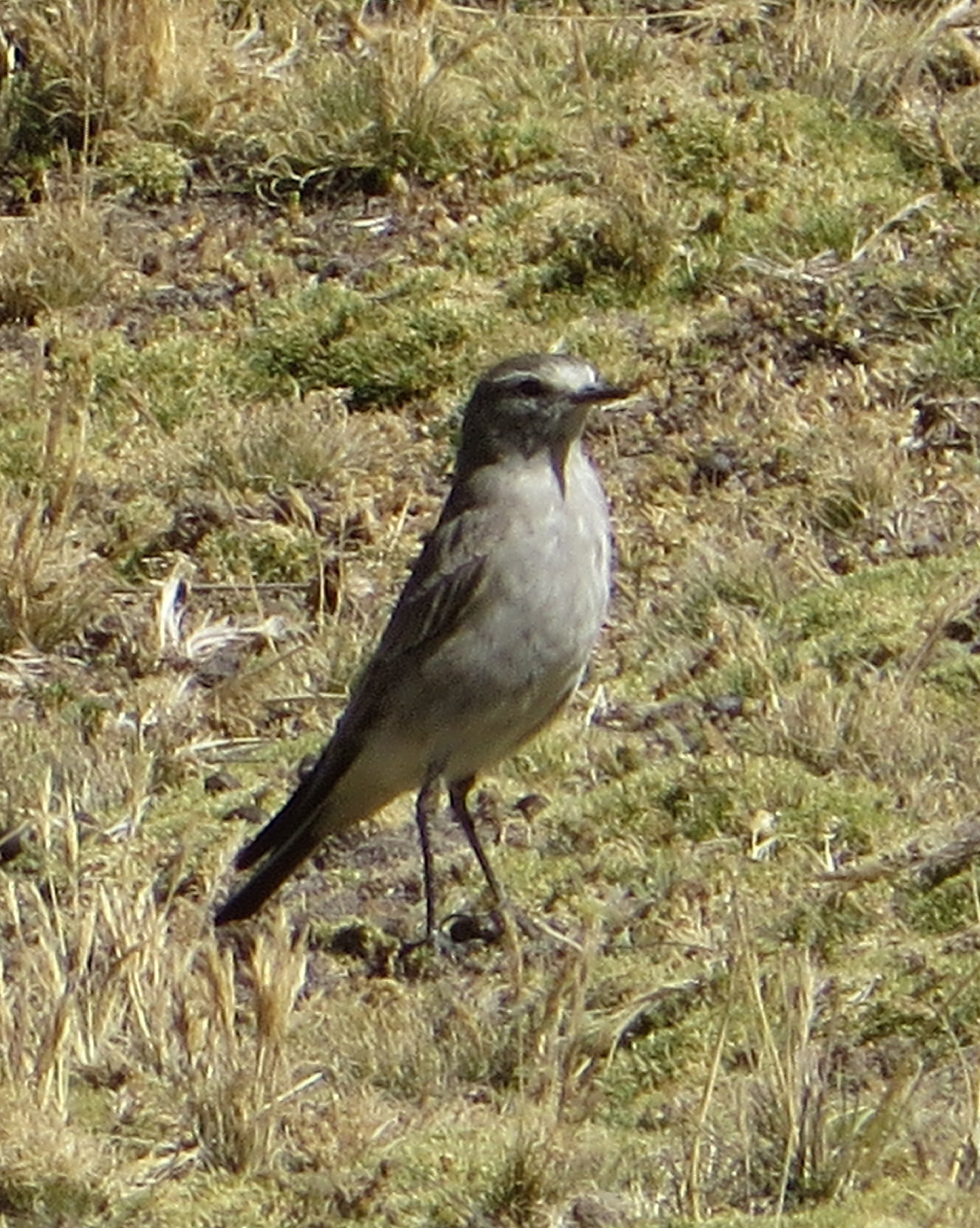 Taczanowki's Ground-Tyrant, Yauli Valley, La Oroya, Peru